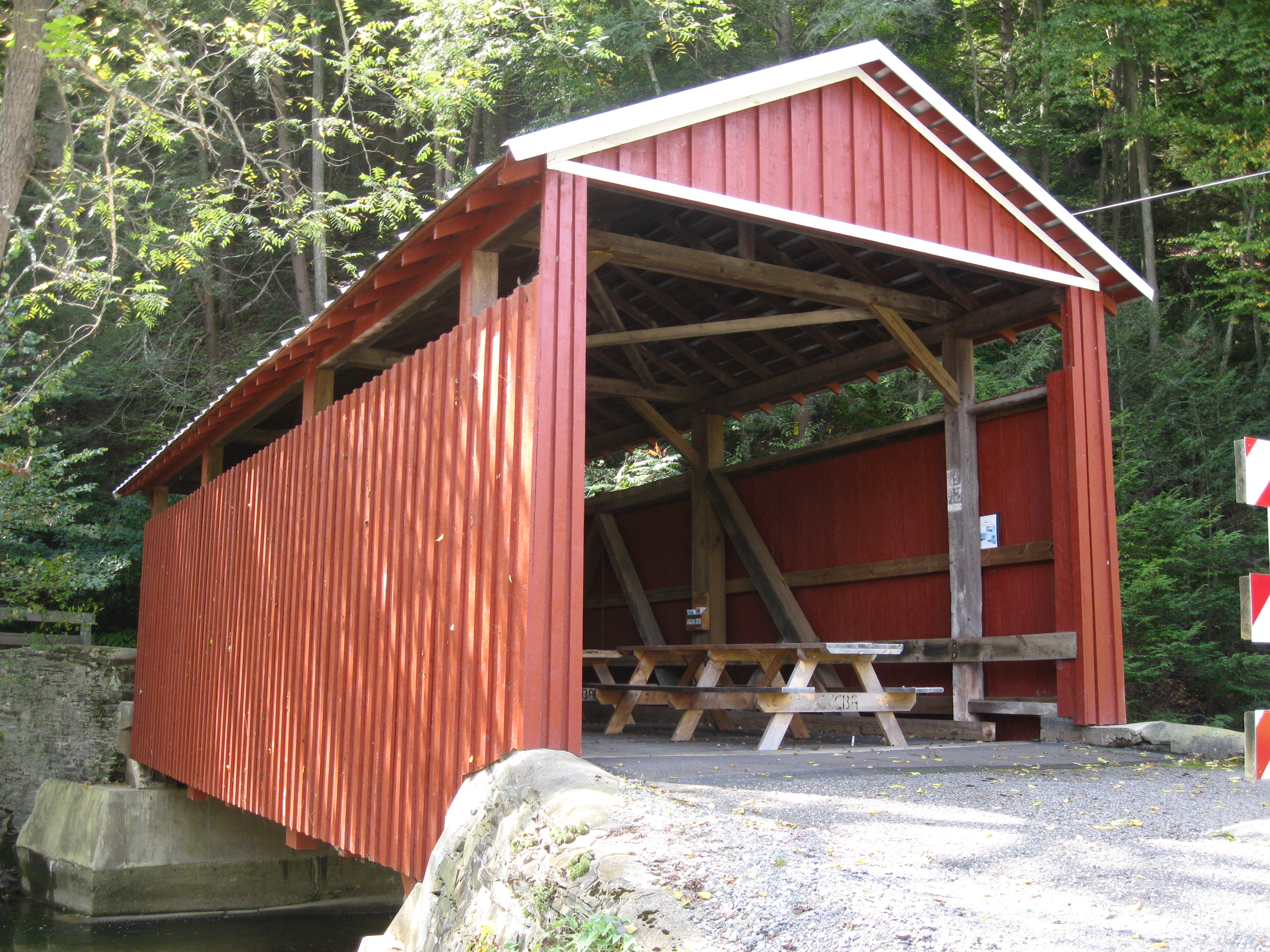 Shoemaker Covered Bridge built in 1881 over West Branch Run in Pine Township in Columbia County, Pennsylvania in the United States.